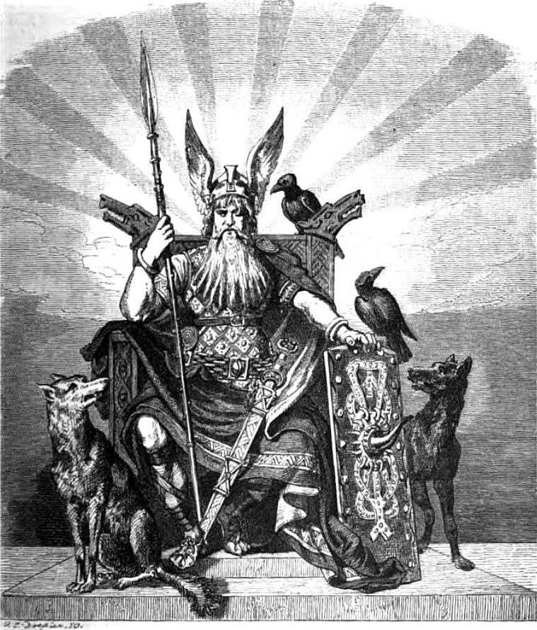 Odin, der Göttervater. Odin enthroned with weapons, wolves and ravens.